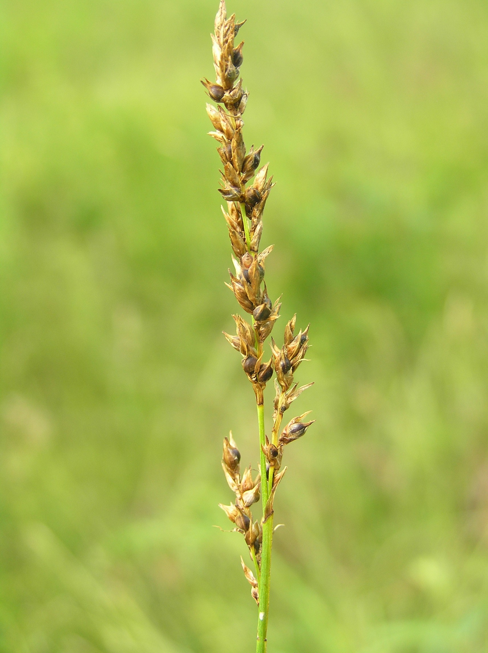 Carex appropinquata, near the pond Malý Karlov, Eastern Bohemia, Czech Republic